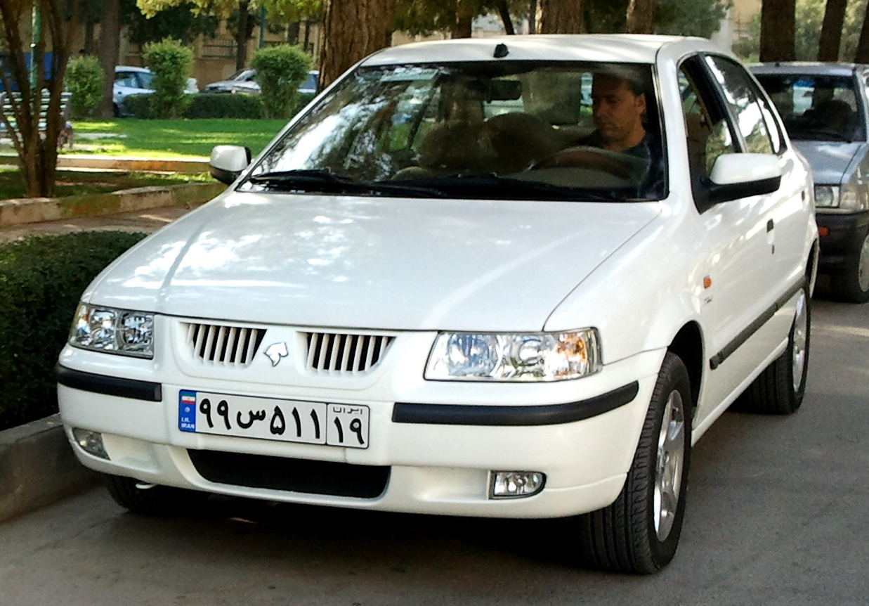 Samand LX, Kermanshah